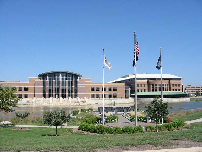 DuPage County Government Center